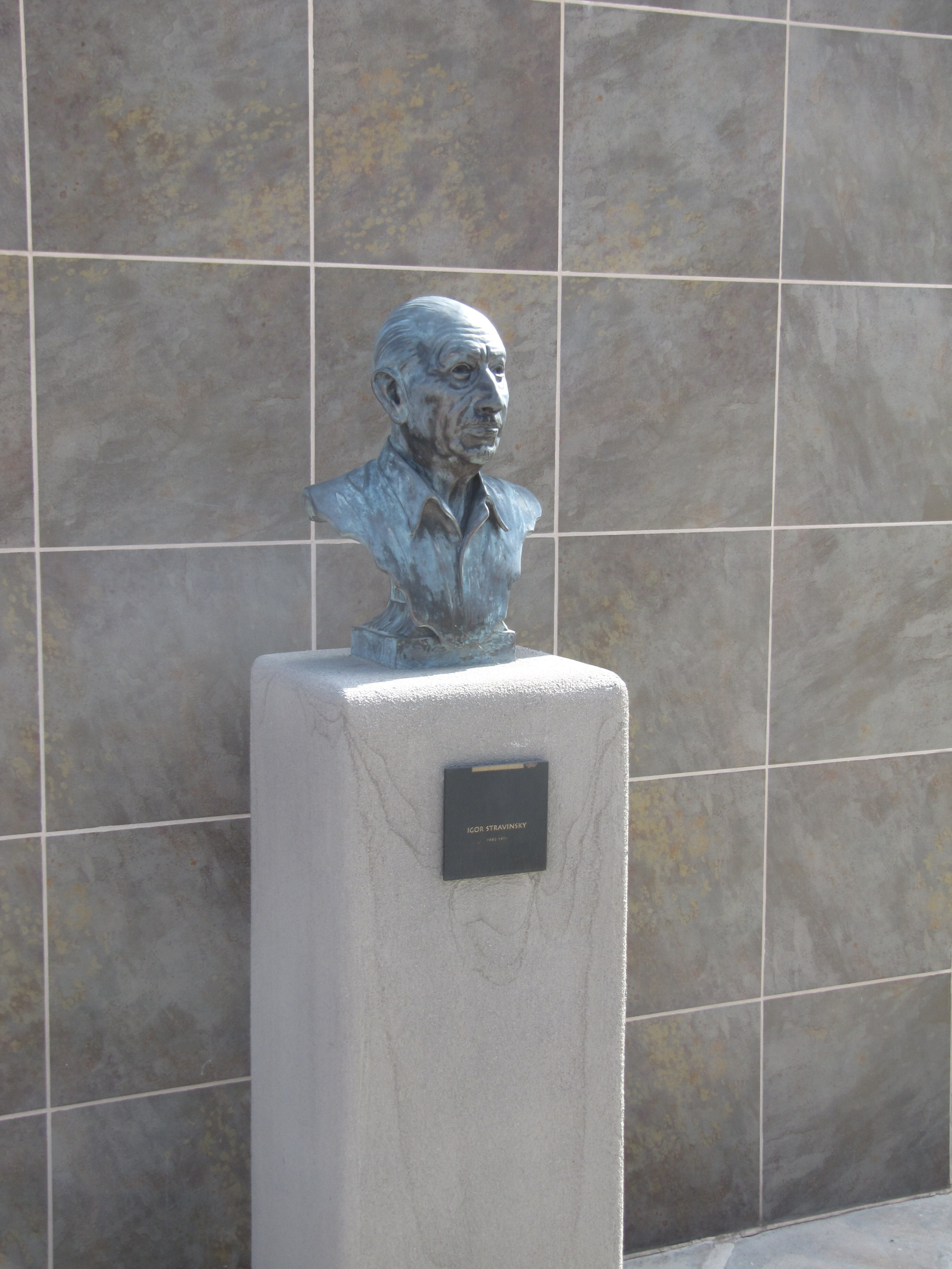 Bust of the composer Igor Stravinsky located on the Stravinsky Terrace of the Santa Fe Opera